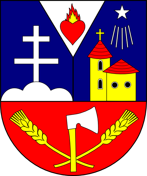 Coat of arms (shield only) of archbishop Eduard Nécsey, apostolic administrator of Nitra, Slovakia (1949 - 1968), based on his seal